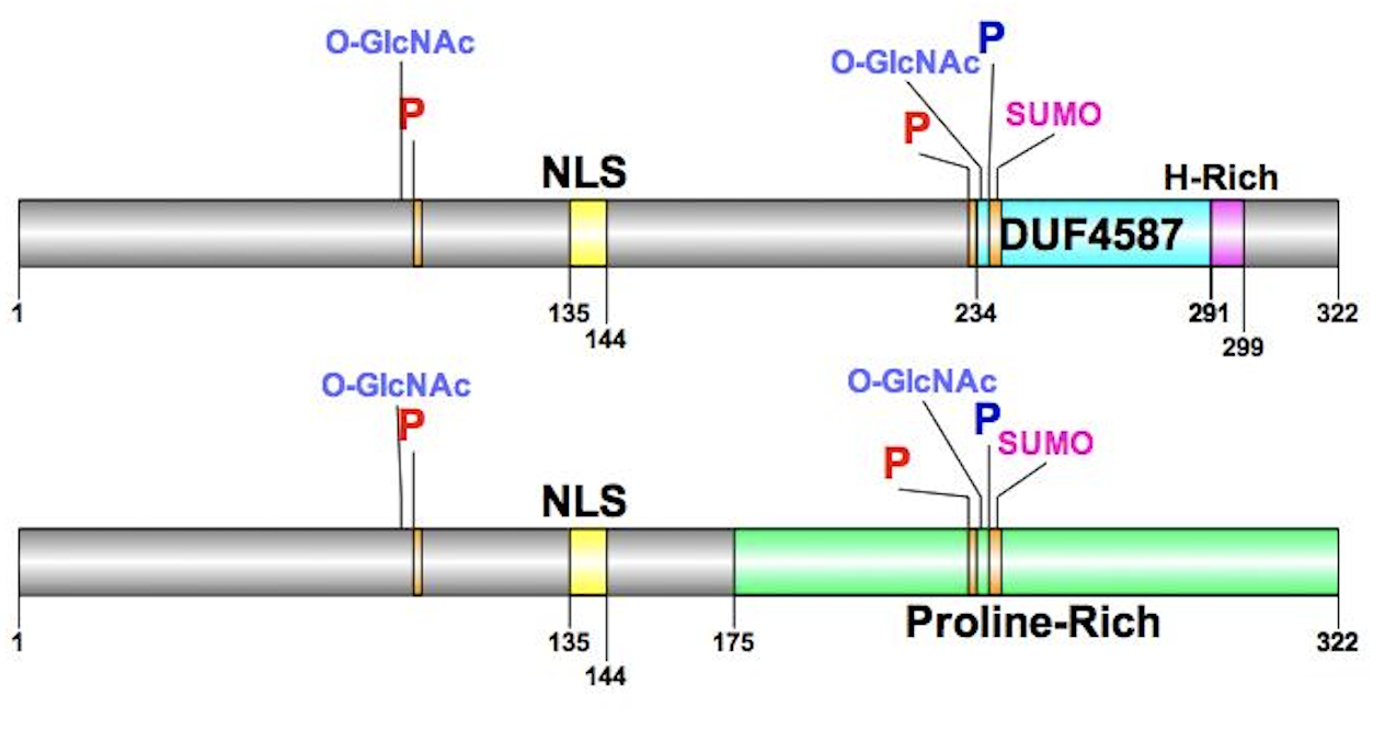 A visual representation of C21orf58 protein Isoform 1 illustrating domains, mortifs, and post-translational modifications.